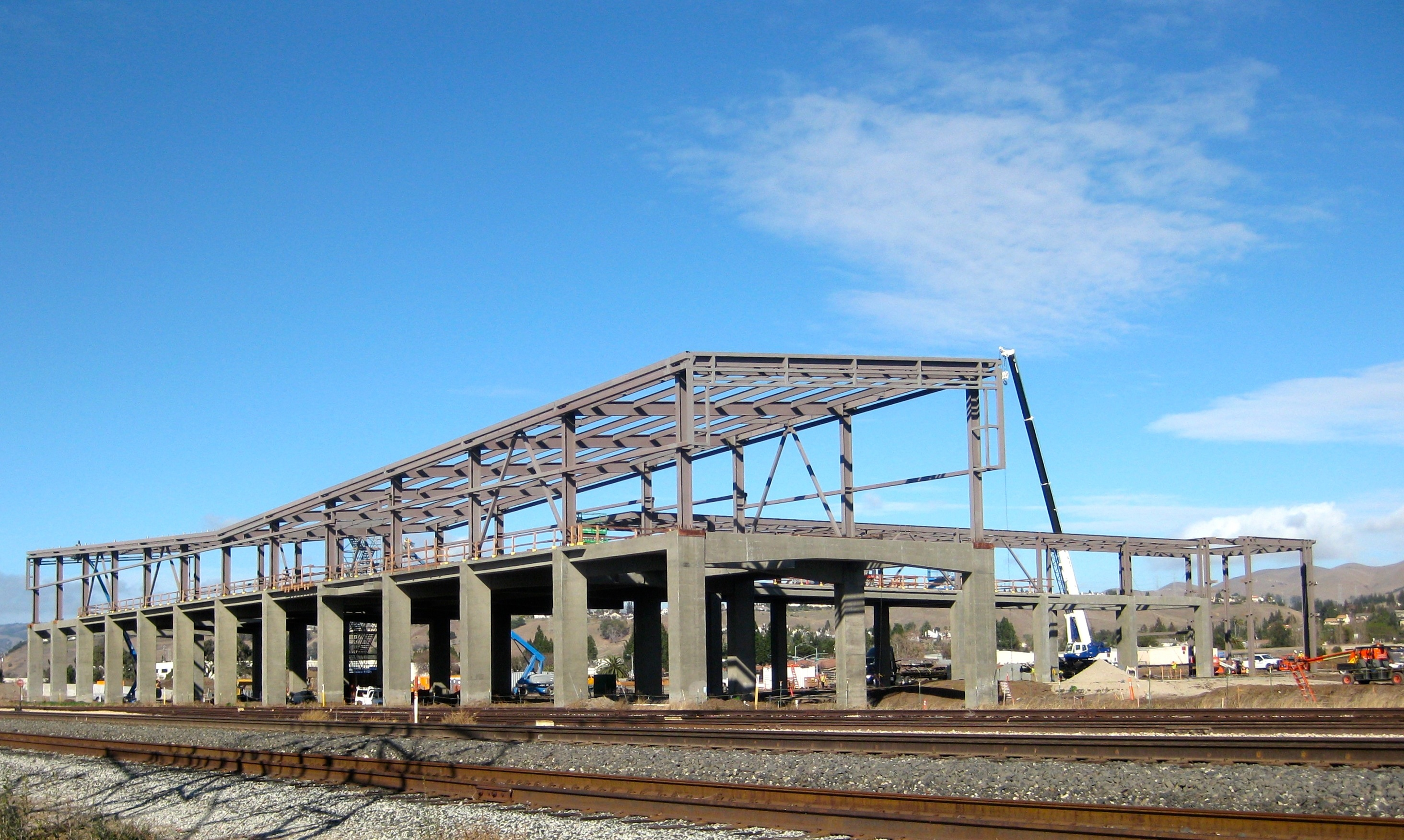 Warm Springs / South Fremont BART station under construction, photographed from its southwest corner.